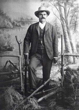 John Bernhard Leiberg collecting for the "Flora of Idaho" Date: 1870 (at age 17) HI Archives portrait no. 2